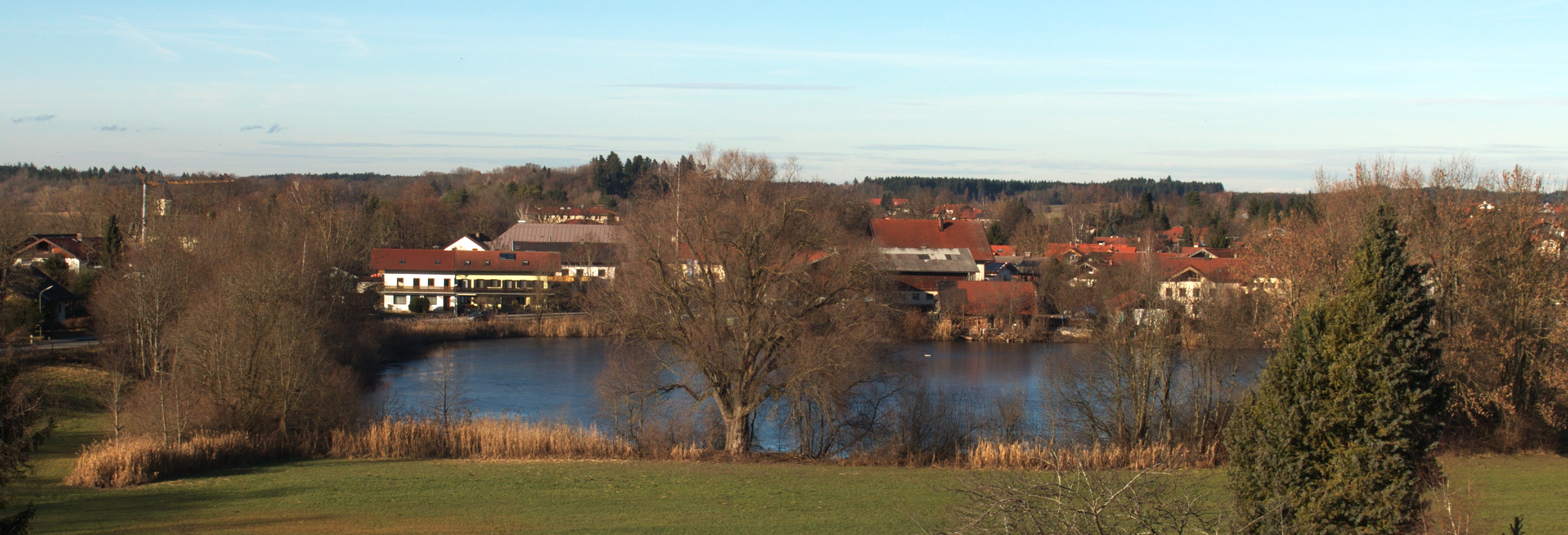 geotope, kettle hole, Pfeffersee in Chieming, Geotop-Nummer: 189R008